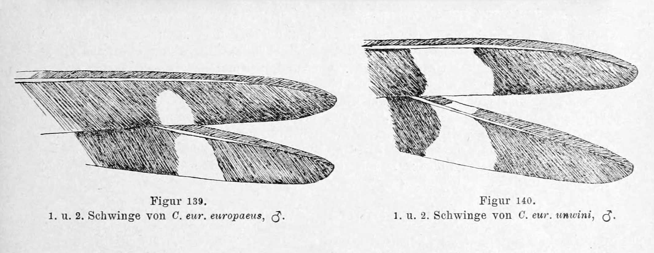 Comparison of the white patch on male primaries between Caprimulgus europaeus europaeus and C. e. unwini